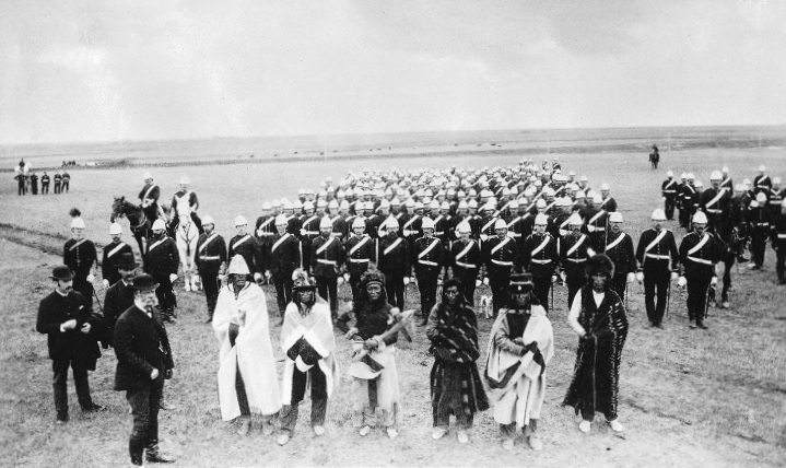 Photograph, Montreal Garrison at Regina with Chief Piapot and five other chiefs, SK, about 1885, Oliver B. Buell, Silver salts on glass - Gelatin dry plate process ?, 12 x 17 cm